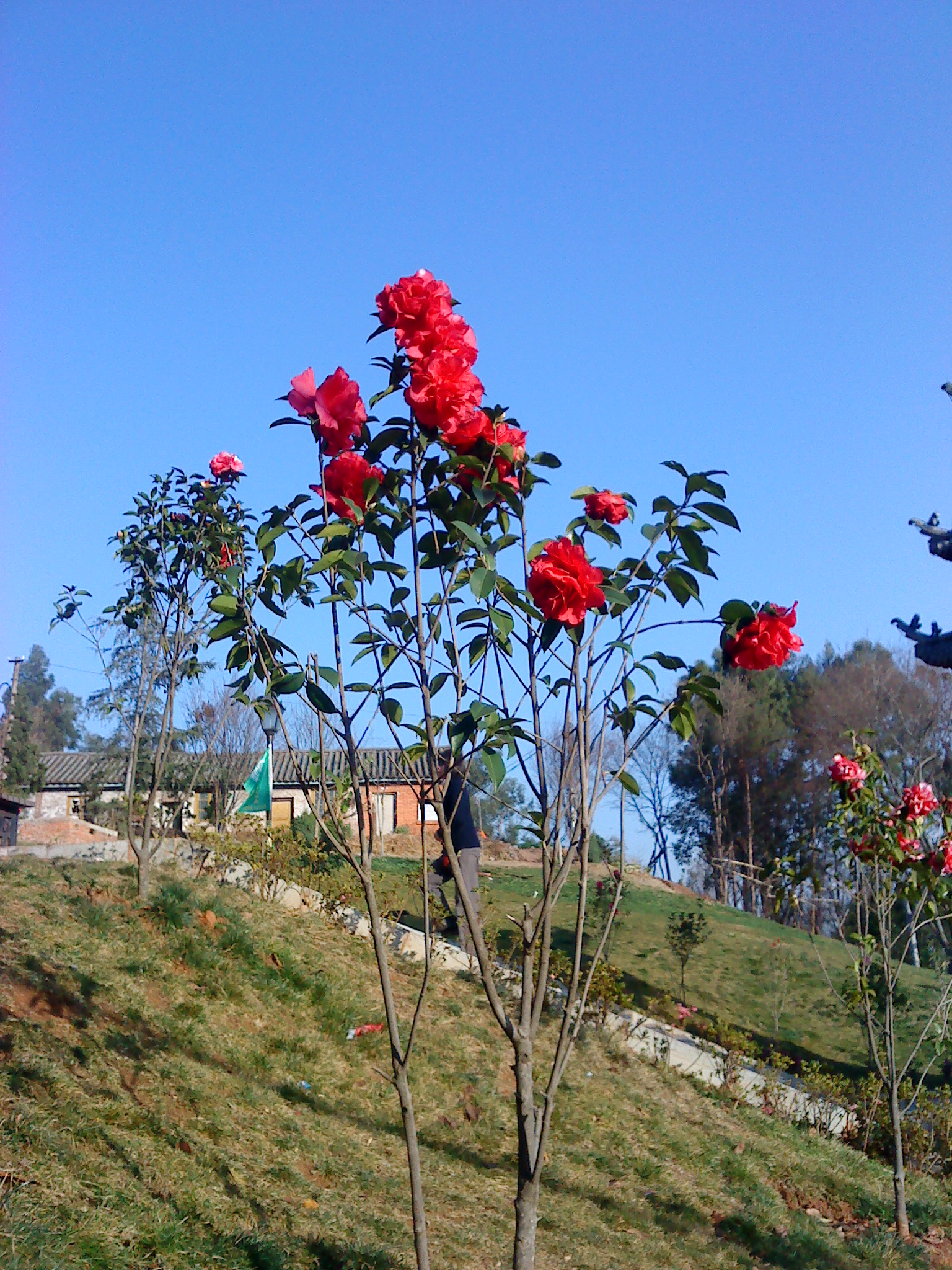 Camellia in Chuxiong city